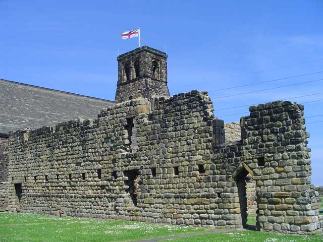 Surviving wall of the west range of St Paul's Monastery, Jarrow, Tyne and Wear, seen from the southwest. In the background is the Norman tower of St Paul's parish church